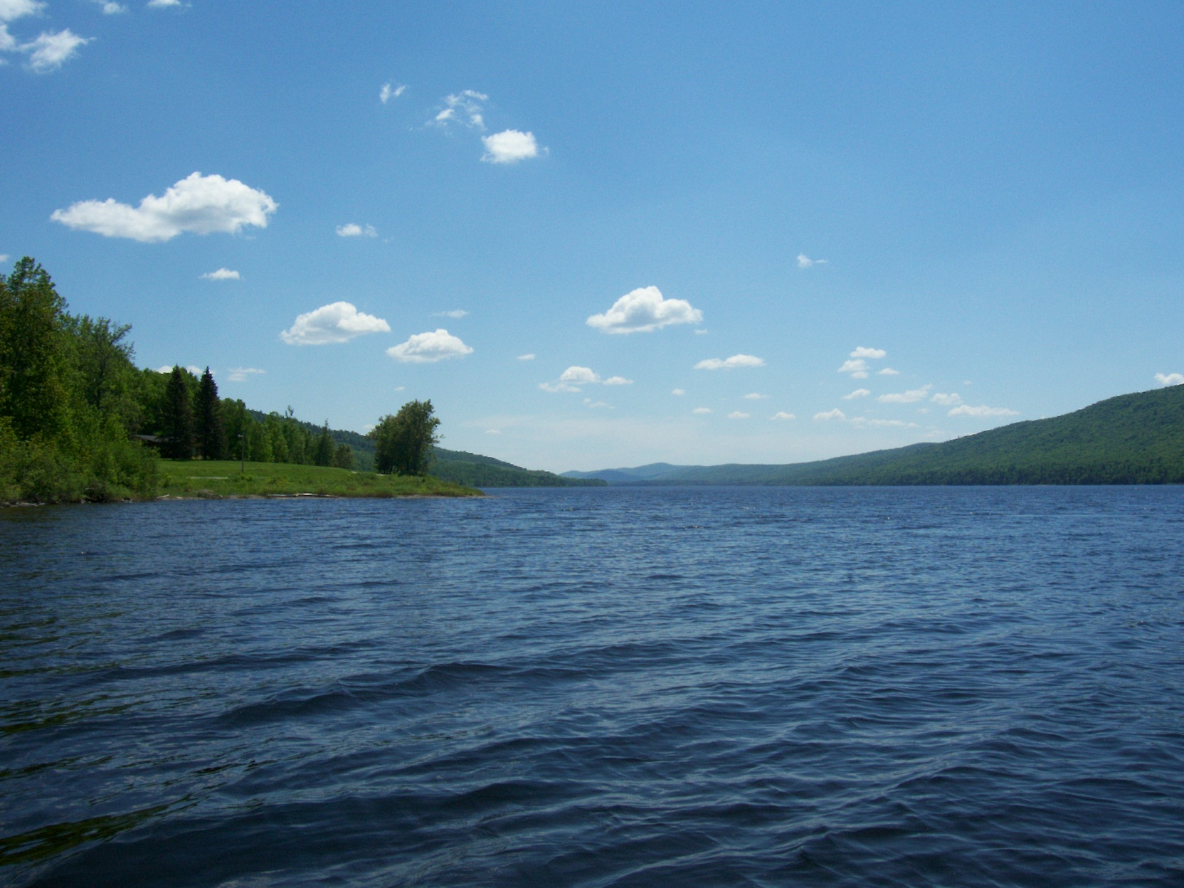 A picture of the Beau lake.